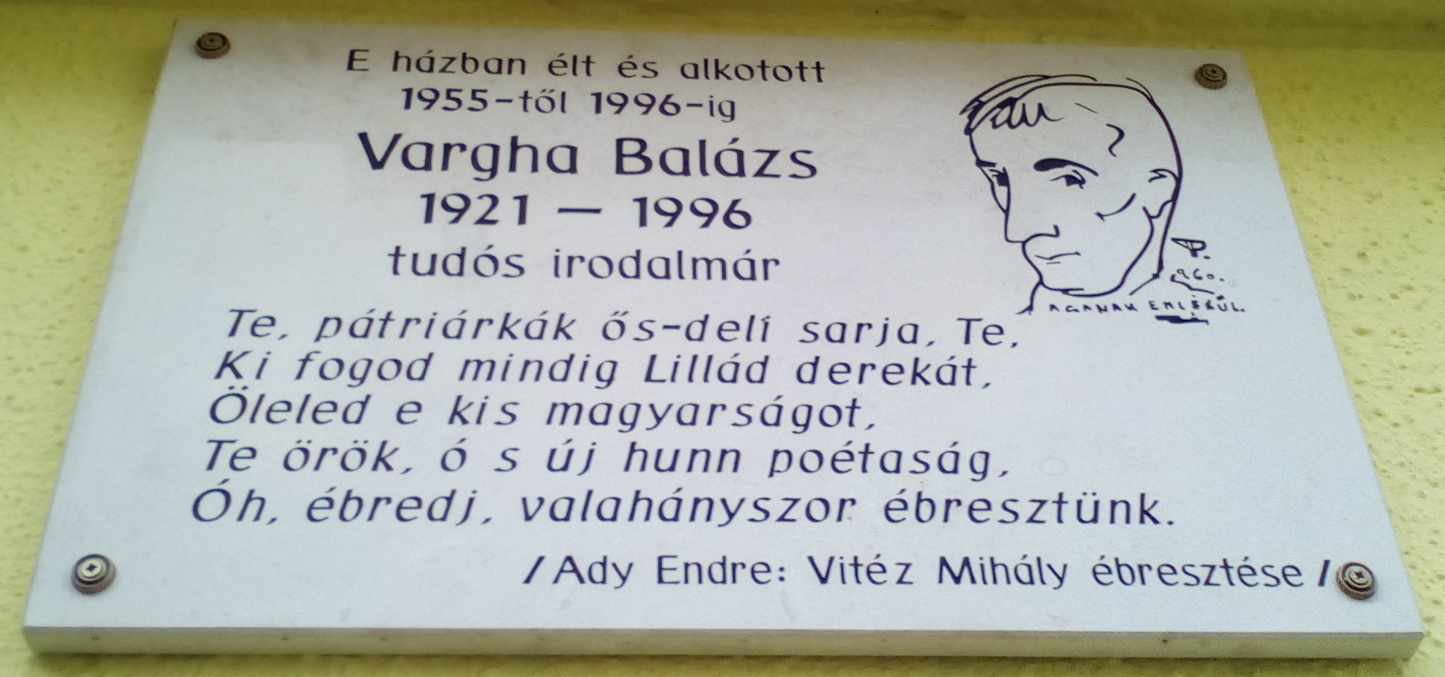 Commemorative plaque of Balázs Vargha in Budapest District XI, Bocskai Street No 31.